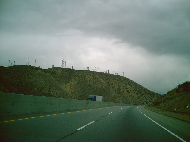 Driving through Tehachapi Pass on California State Route 58. With the Tehachapi Pass Wind Farm.